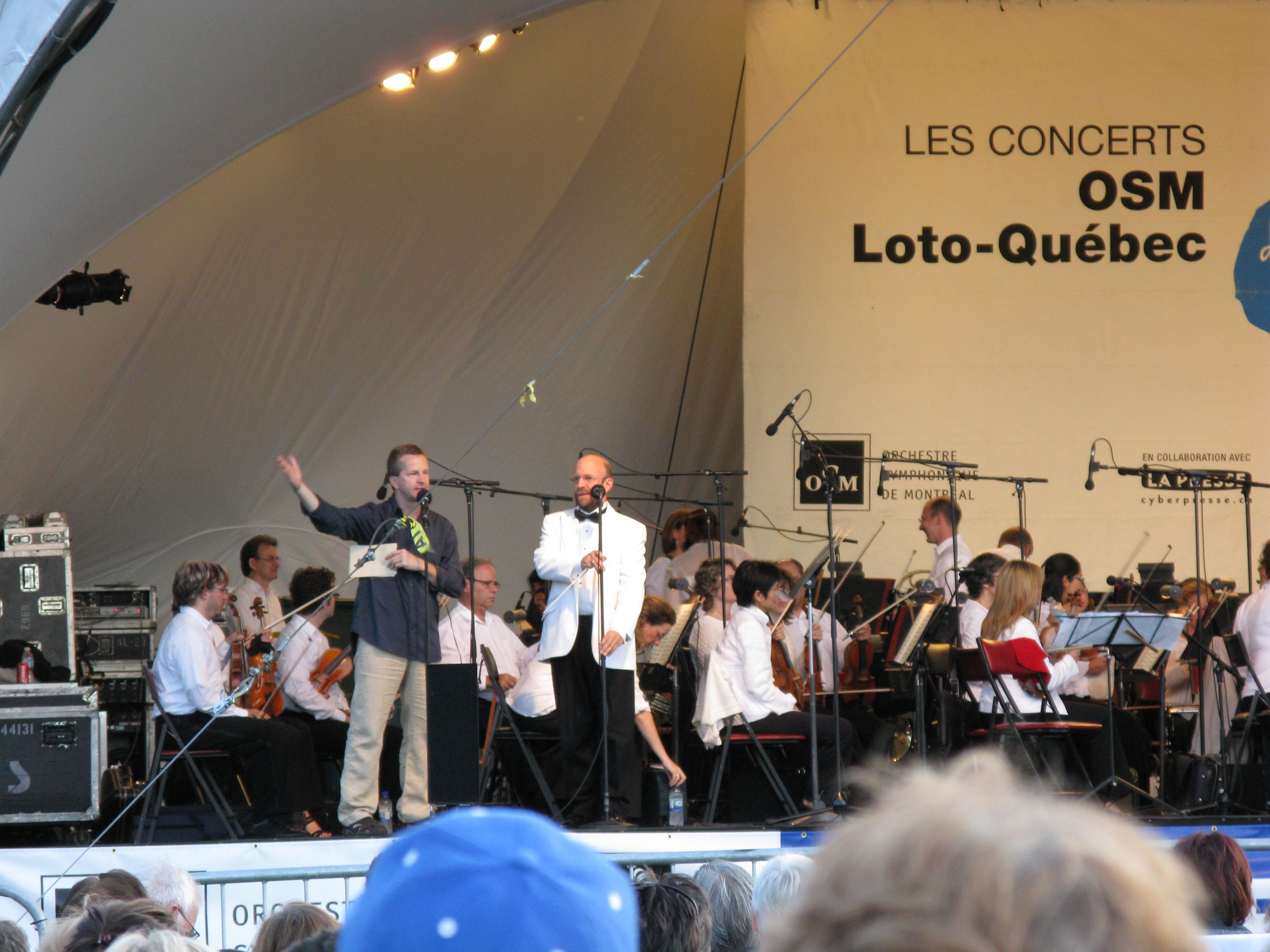 The Montreal Symphony Orchestra playing in the borough of Pierrefonds-Roxboro with master of ceremonies André Robitaille and conductor Jean-François Rivest.